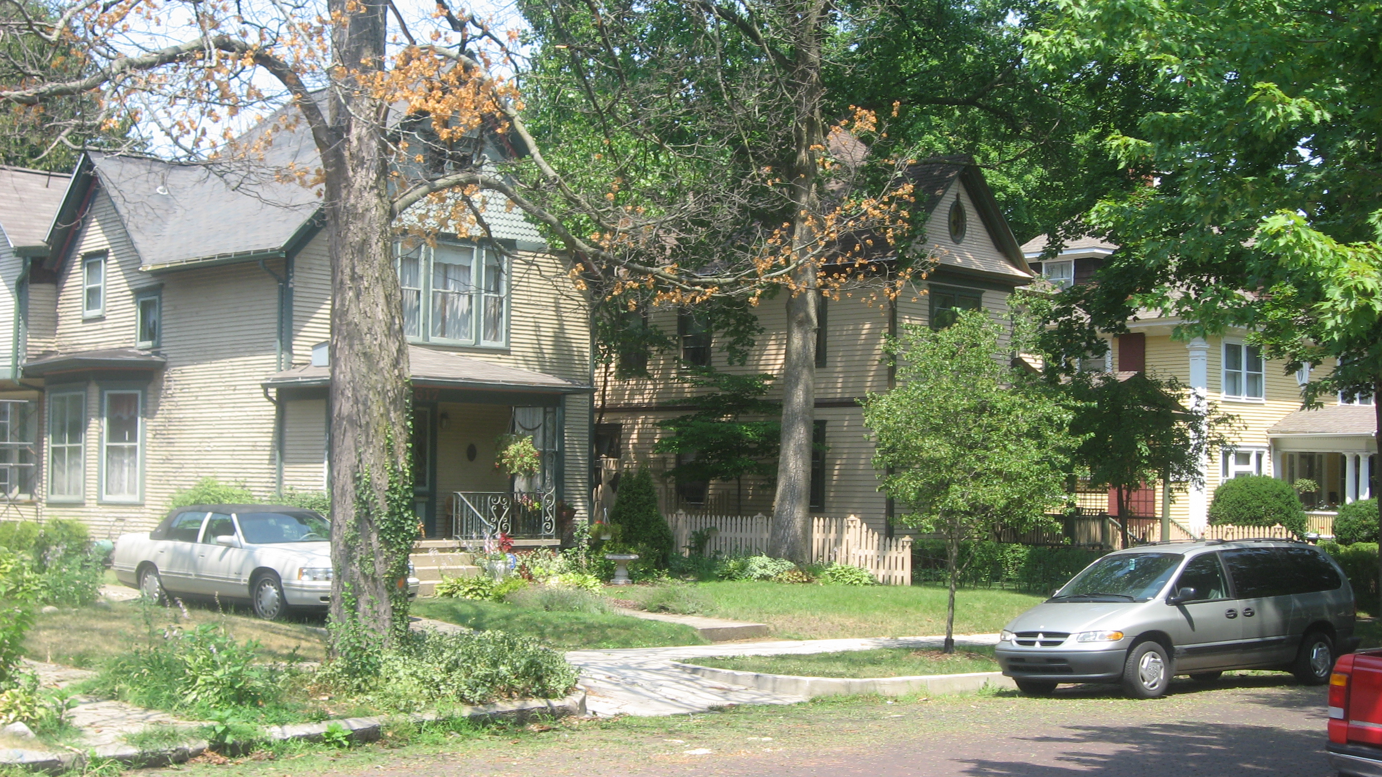 Houses at 617, 619, and 623 Park Avenue (left to right) in South Bend, Indiana, United States. This block of Park is part of the Chapin Park Historic District, a historic district that is listed on the National Register of Historic Places.